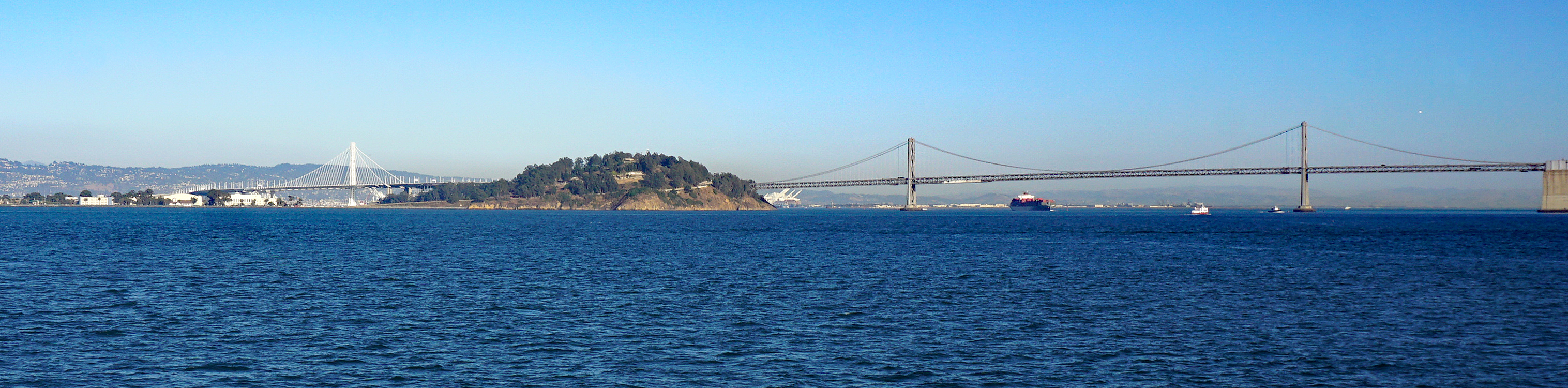 Panoramic view of the San Francisco–Oakland Bay Bridge with new eastern span